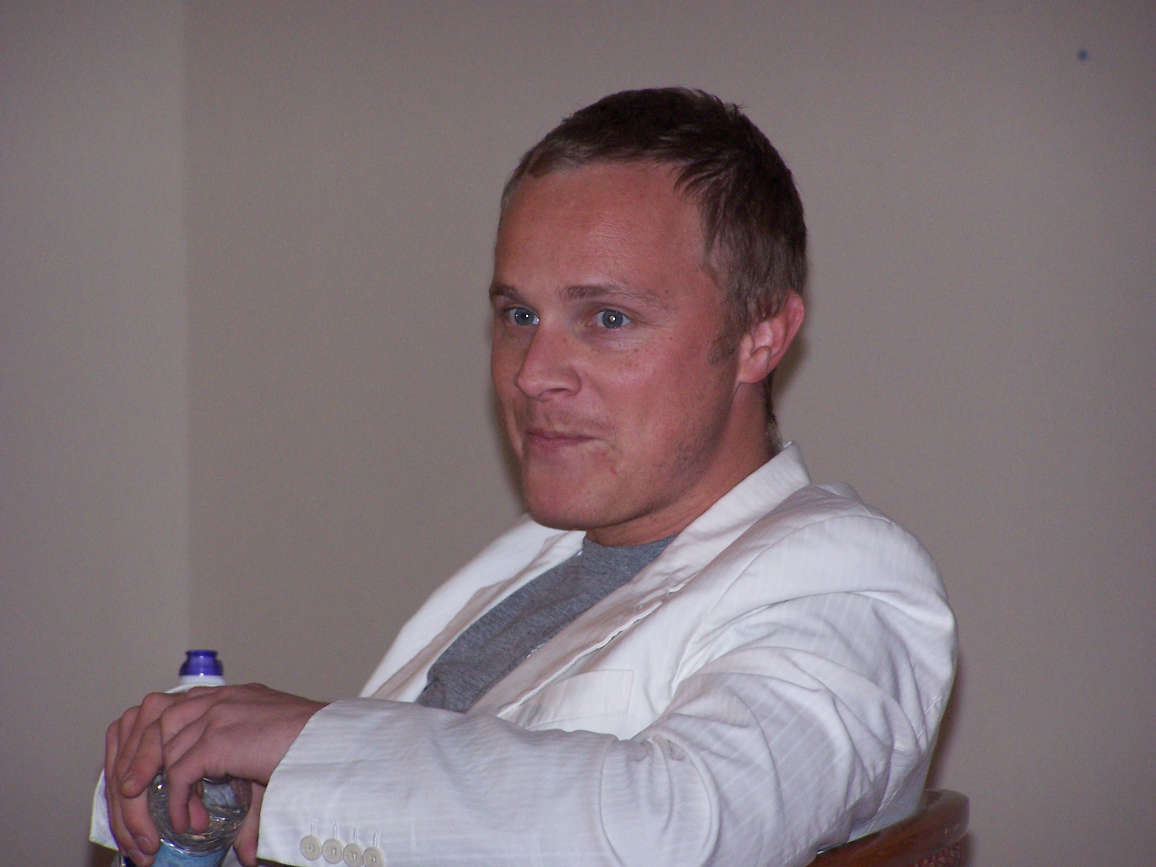 David Anders